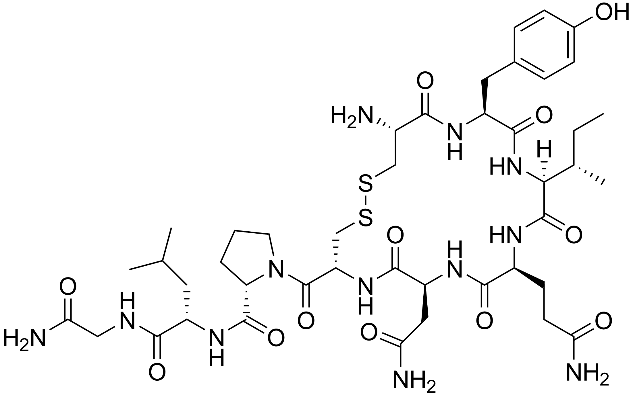 chemical structure of oxytocin